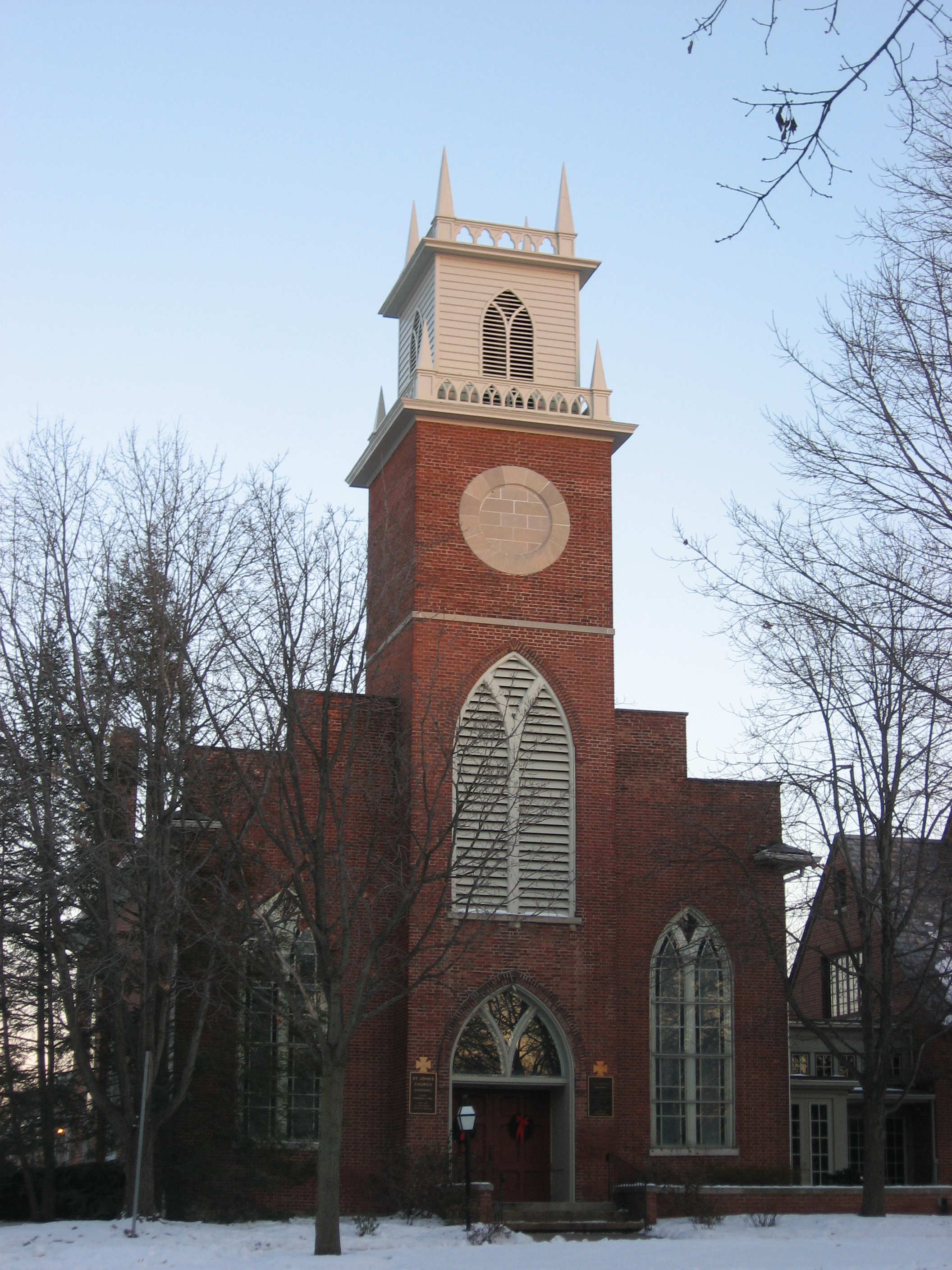 Front of St. John's Episcopal Church, located at 700 High Street (U.S. Route 23) in Worthington, Ohio, United States. Built in 1827, it is listed on the National Register of Historic Places, and it is a part of a Register-listed historic district, the Worthington Historic District.